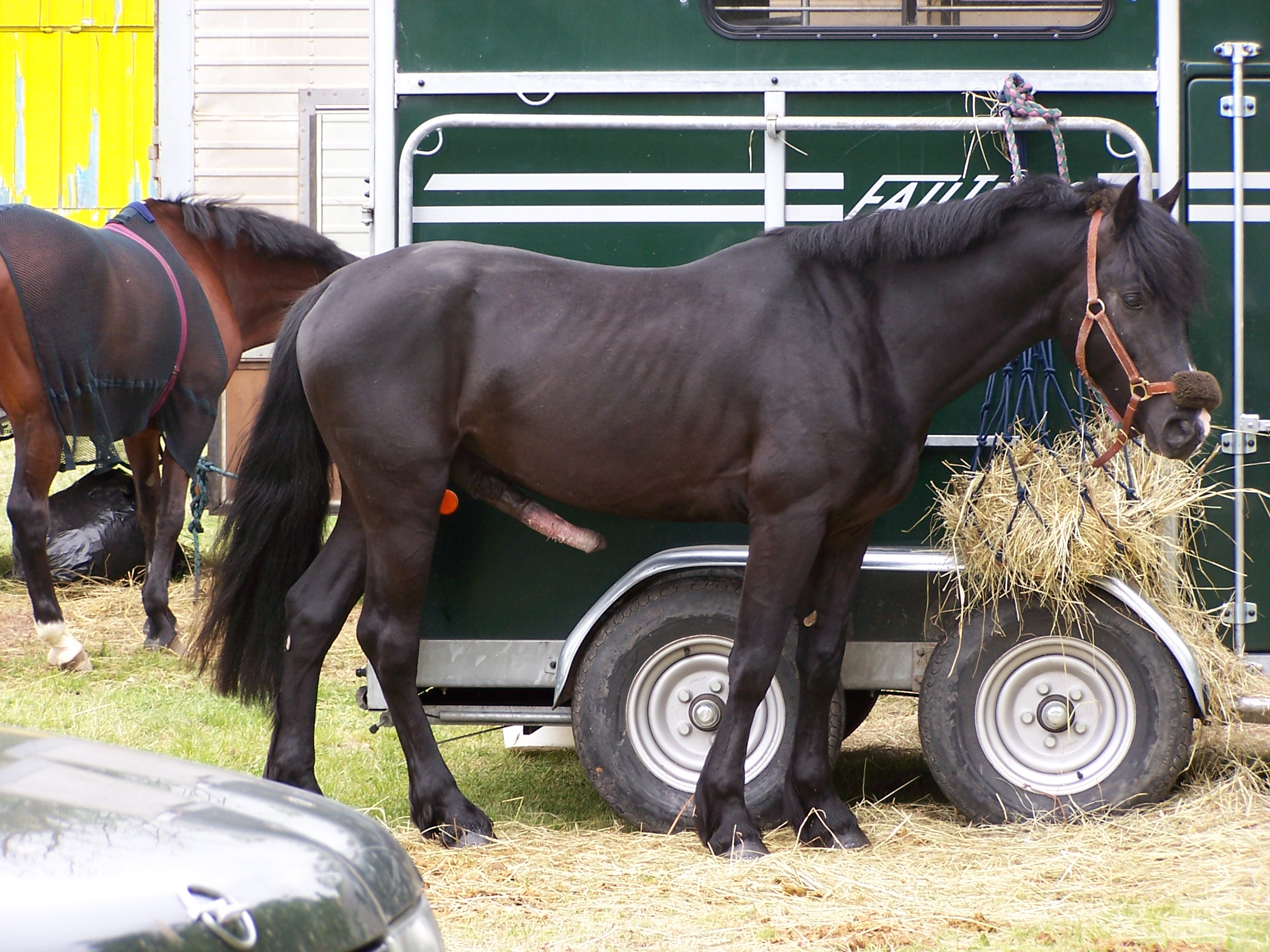 Picture of a horse (Equus caballus) with an erect penis.